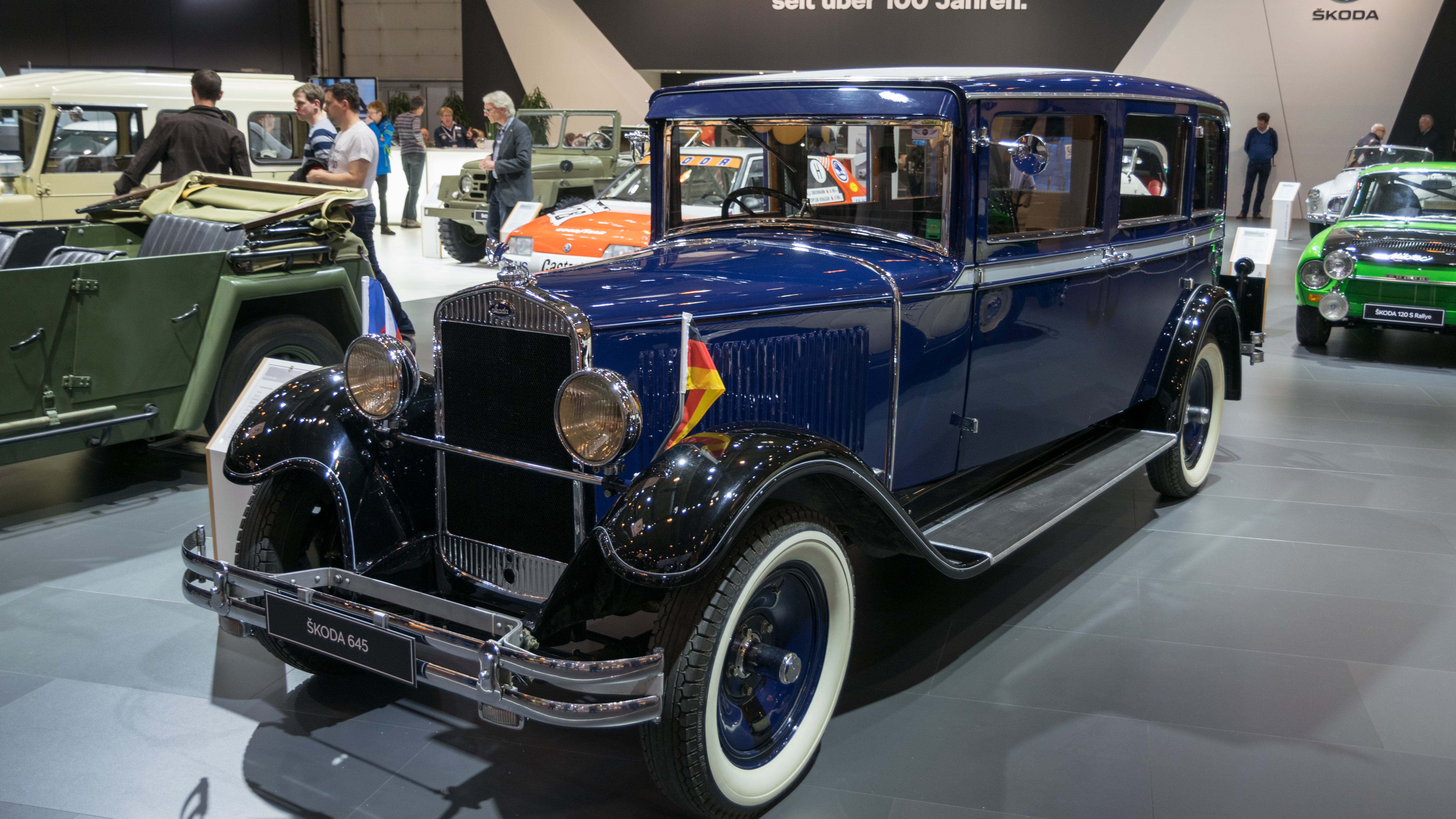 Škoda 645 (1931) at Technocalssica 2018 in Essen